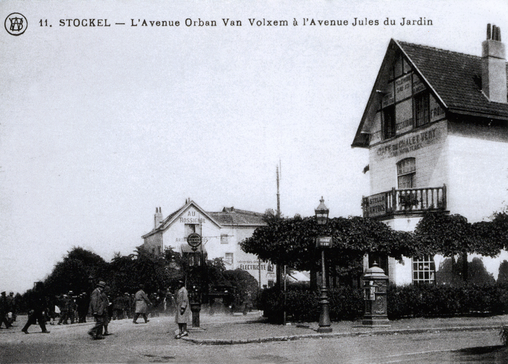 A postcard view of Stockel